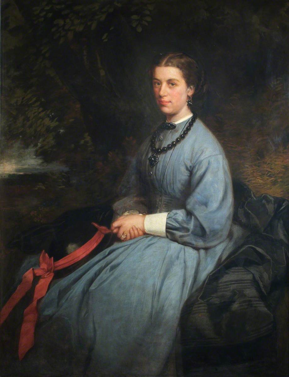 Portrait of Alice Westlake (1842–1923), English painter, engraver and activist for women's rights. Created by Lowes Cato Dickinson (1819–1908). Held by University College Hospital in London.